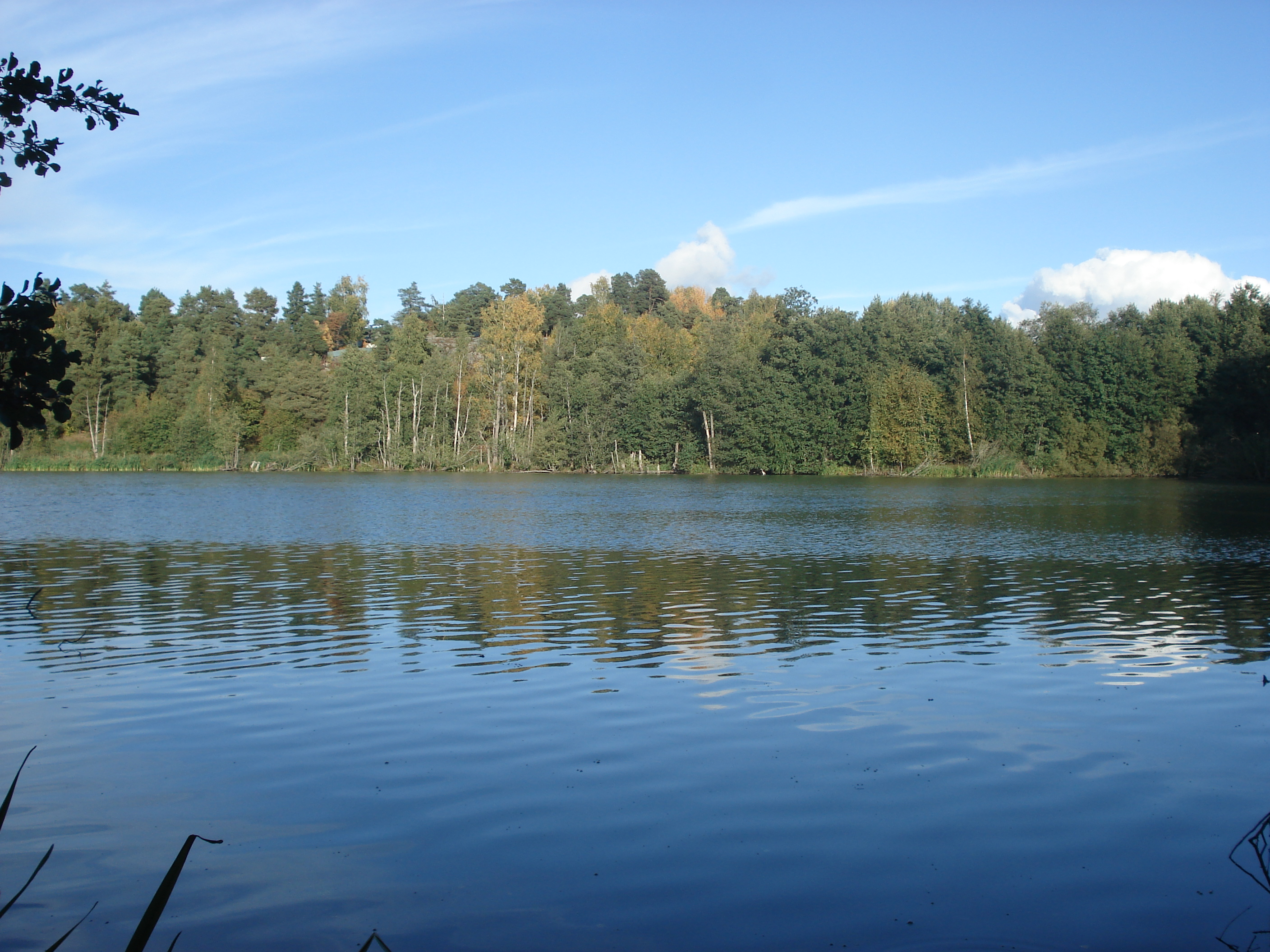 Luolalanjärvi is a lake in Naantali, Finland. Picture has taken at lake SW-corner.